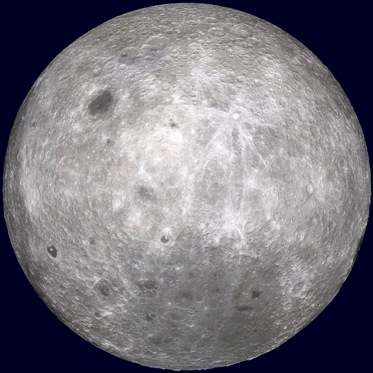 Near side lunar phase image set rendered by Jay Tanner - 2014. Size : 1200x1200 pixels Format : JPEG Author : Jay Tanner - 2014 License : These images are released under the provisions of the Creative Commons Attribution-ShareAlike 3.0 license. The image set consists of 361 images of the geocentric moon with 3D relief at 1-degree intervals of phase measured positively counterclockwise around the sky, eastward, from 0 to 360 degrees. Phase Orientation Legend: New = 0 degrees First Quarter = 90 Full = 180 Last Quarter = 270 New = 360